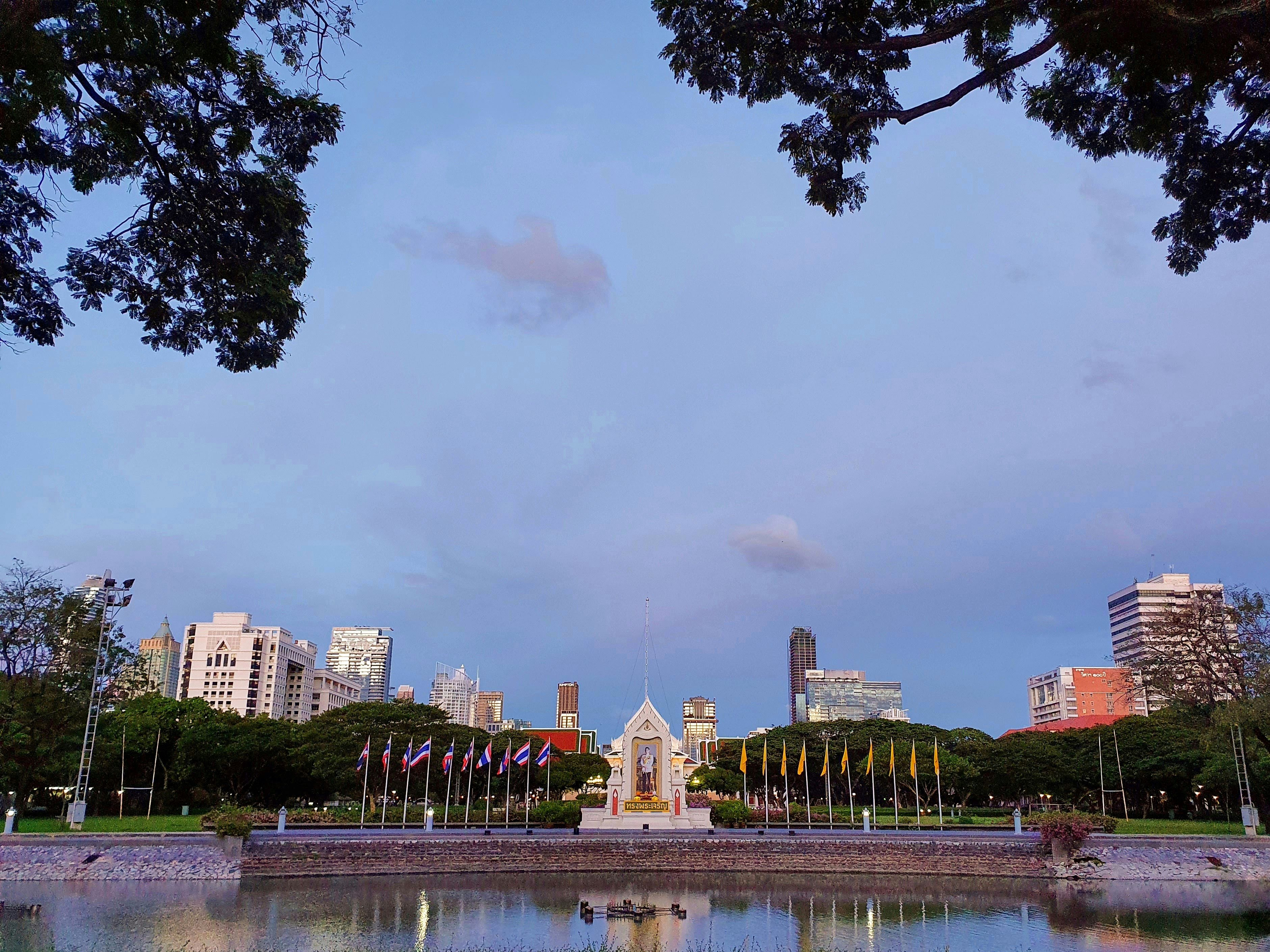 This picture was taken slightly after 6 o'clock in the evening from the main gate of Chulalongkorn University to describe the meaning of the university campus landscape.